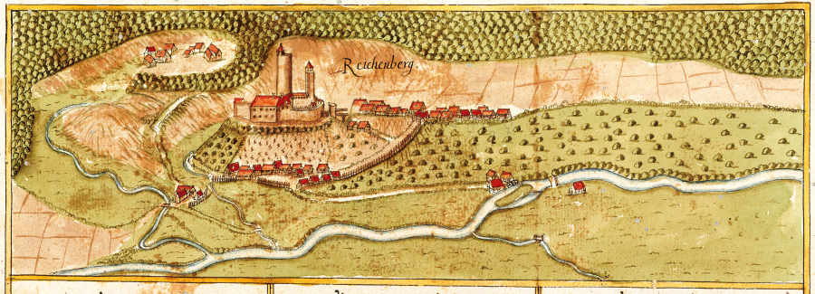 View of Reichenberg, Oppenweiler, from the forest register books created by Andreas Kieser